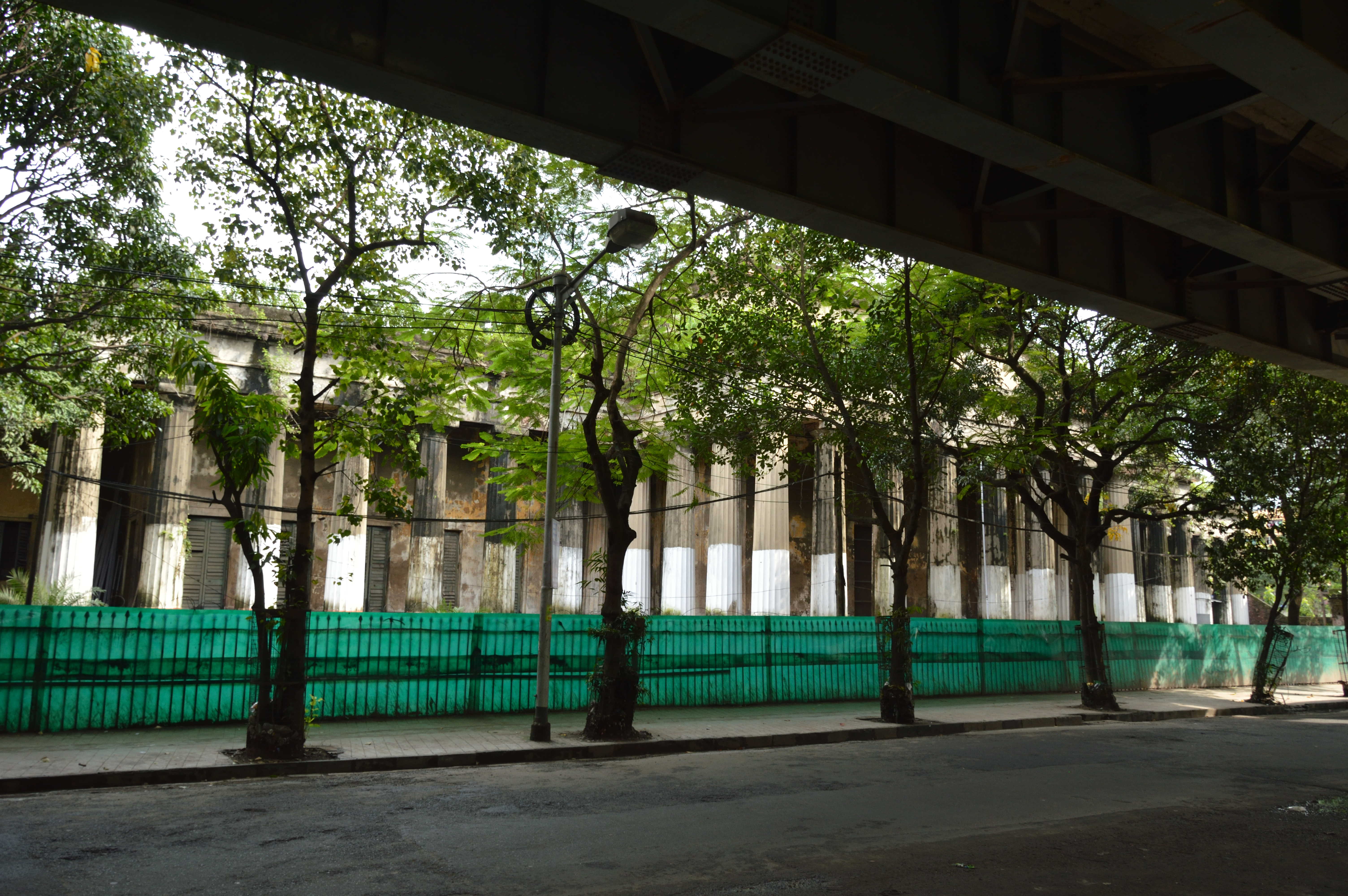 This photograph was taken from the Strand road, Kolkata.